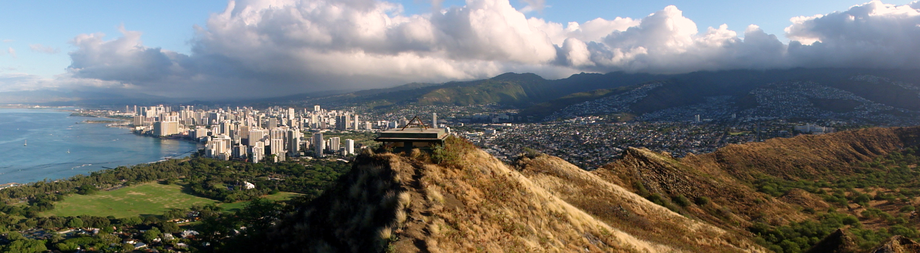 Diamond Head: View of Waikiki on the left, the Crater on the right and the Bunker in the middle